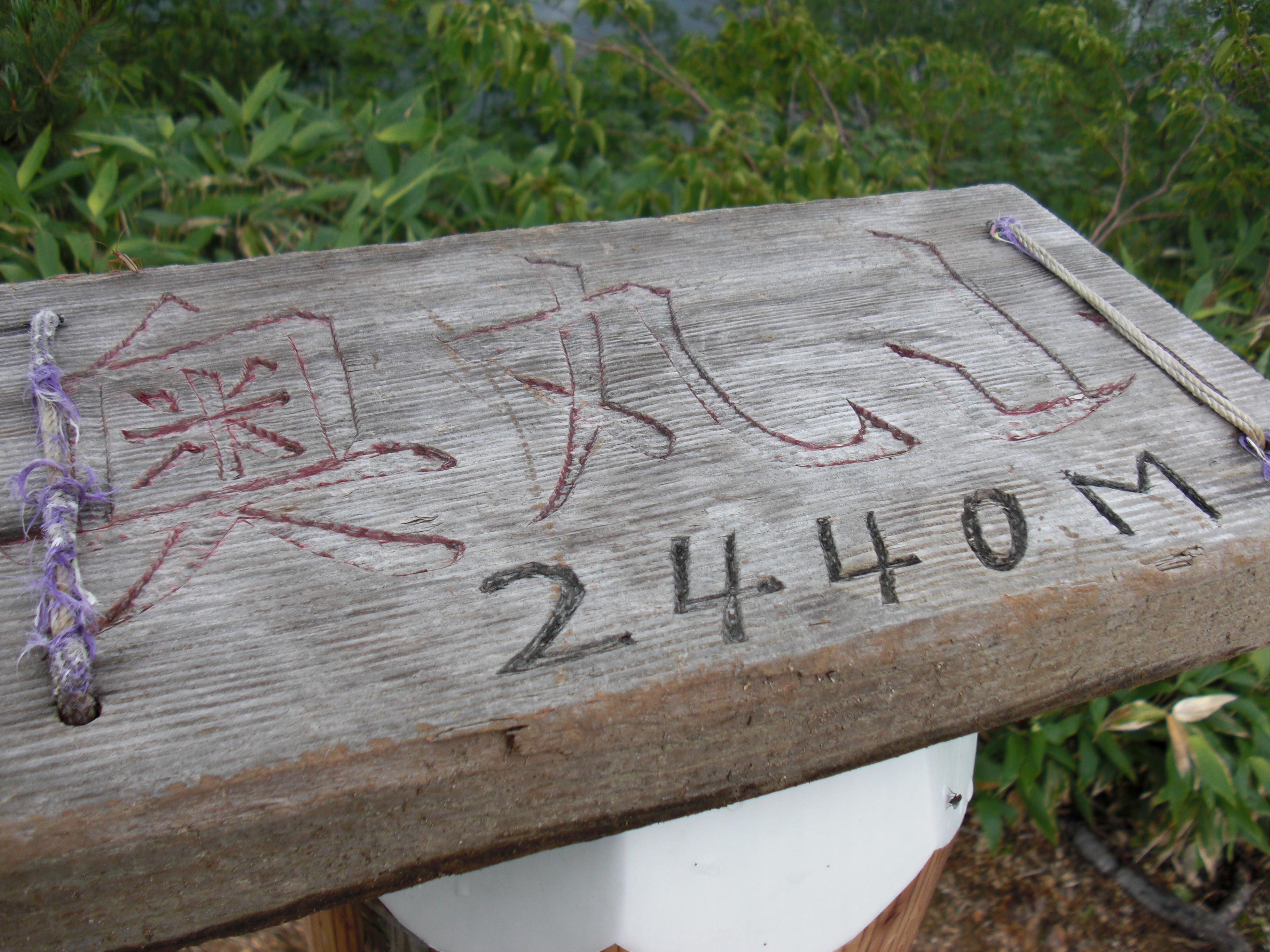 Mt.Okumaru signboard